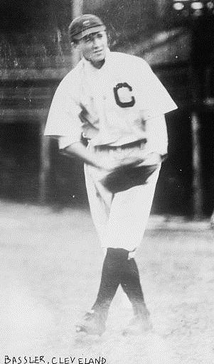 Johnny Bassler of the Cleveland American League team